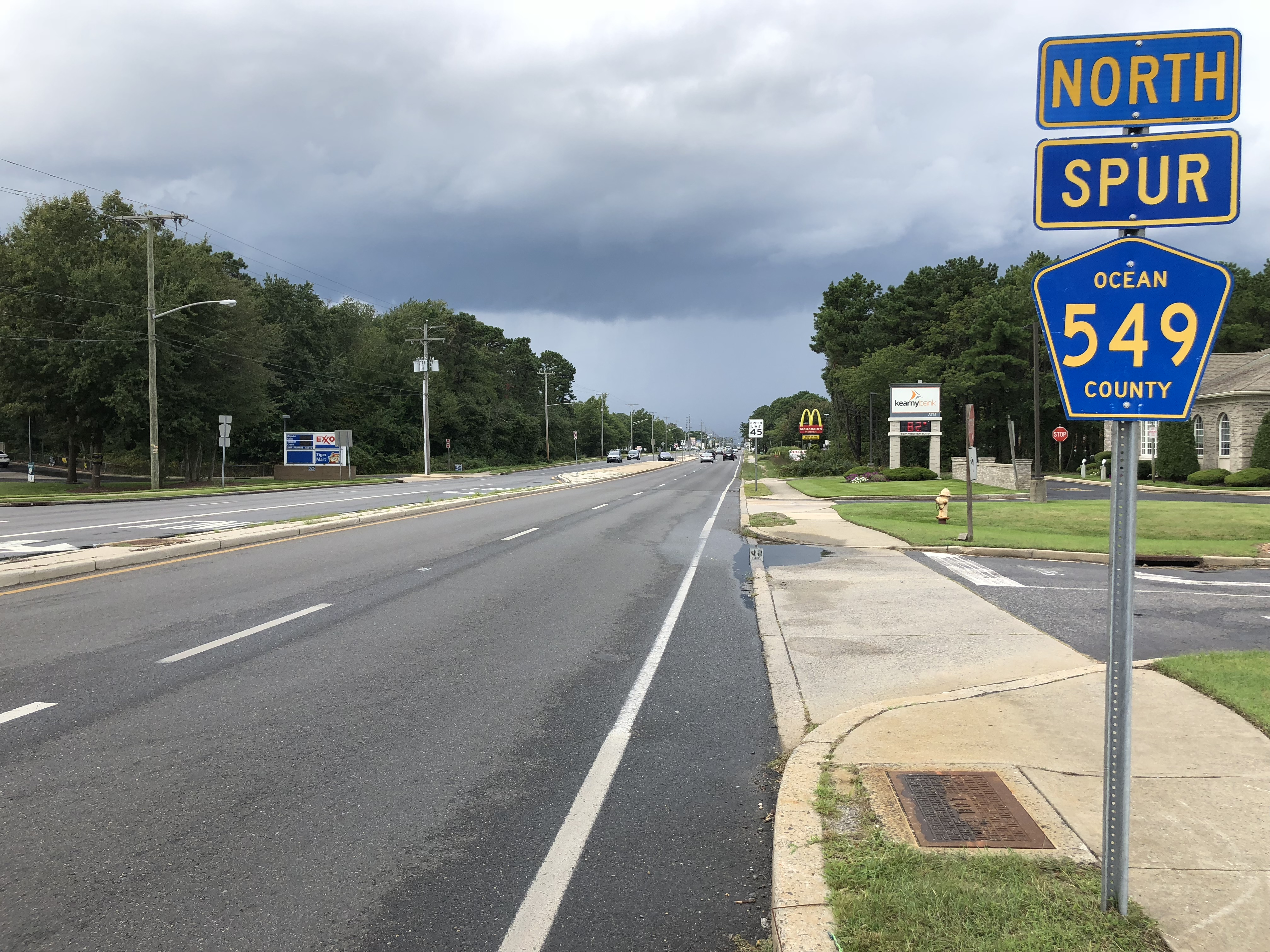 View north along Ocean County Route 549 Spur (Fischer Boulevard) just north of Ocean County Route 571 and Ocean County Route 27 (Bay Avenue) in Toms River Township, Ocean County, New Jersey